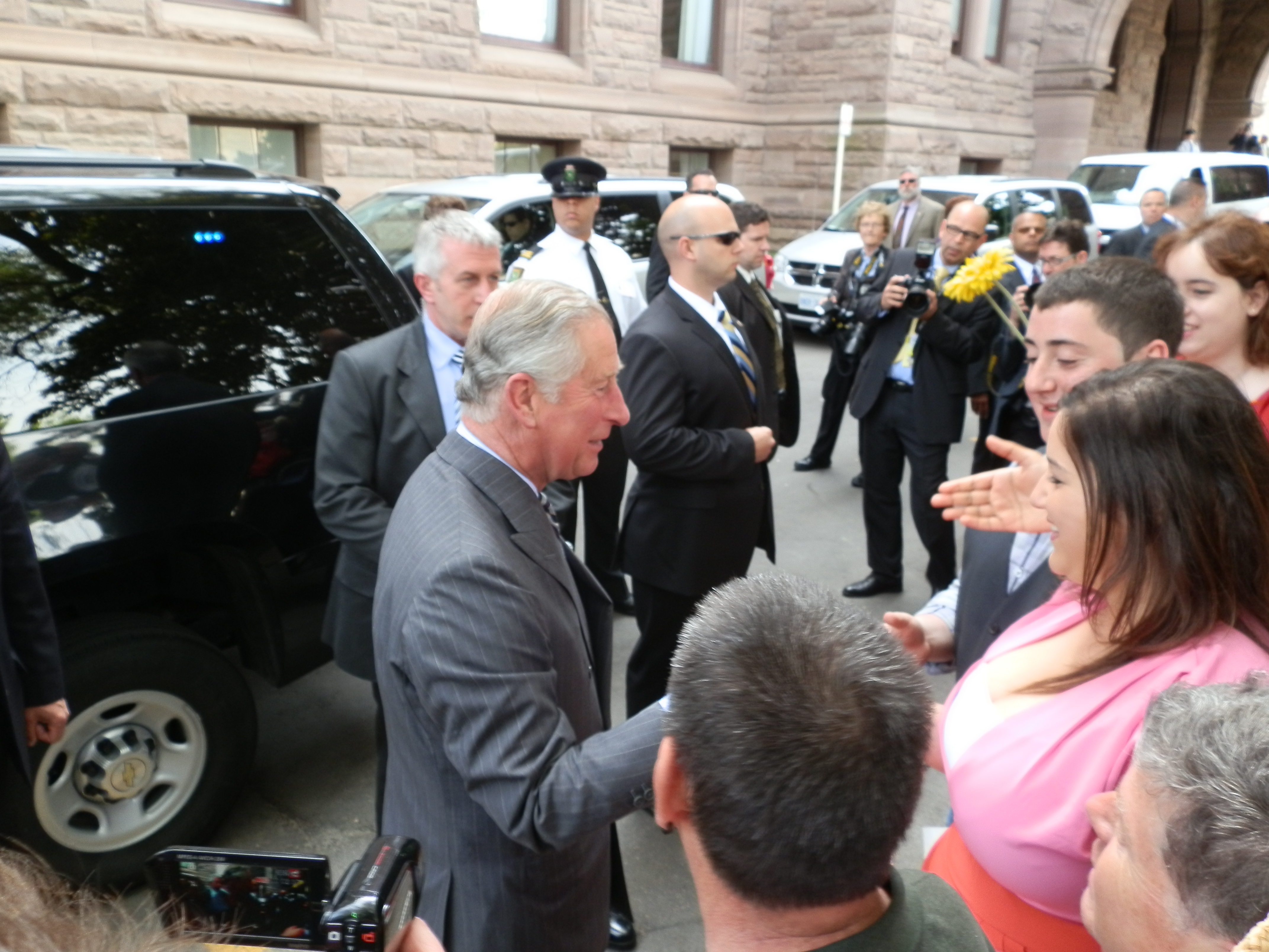 The Prince of Wales in Queen's Park